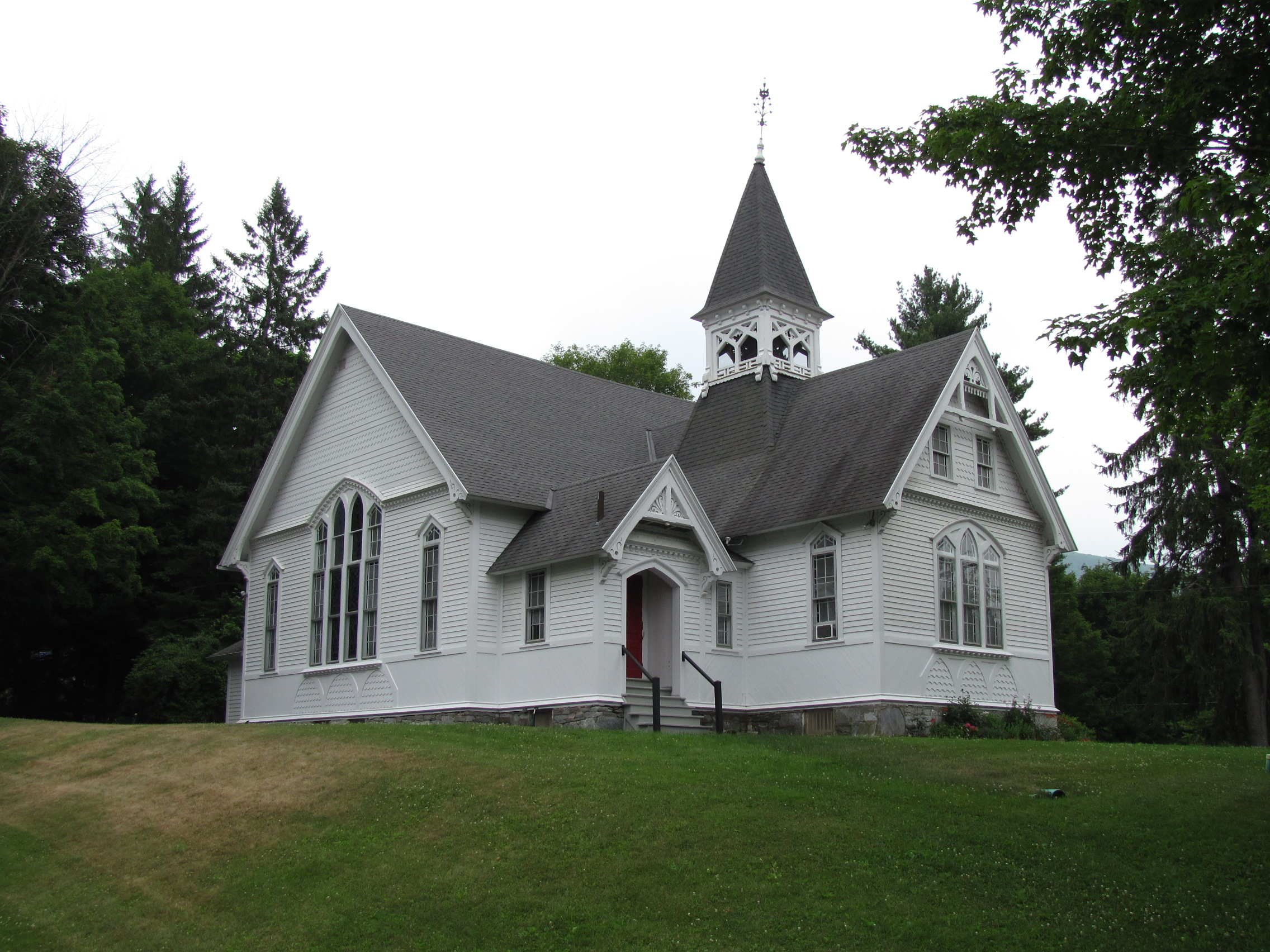 Carpenter Gothic style Congregational Church of West Stockbridge Massachusetts